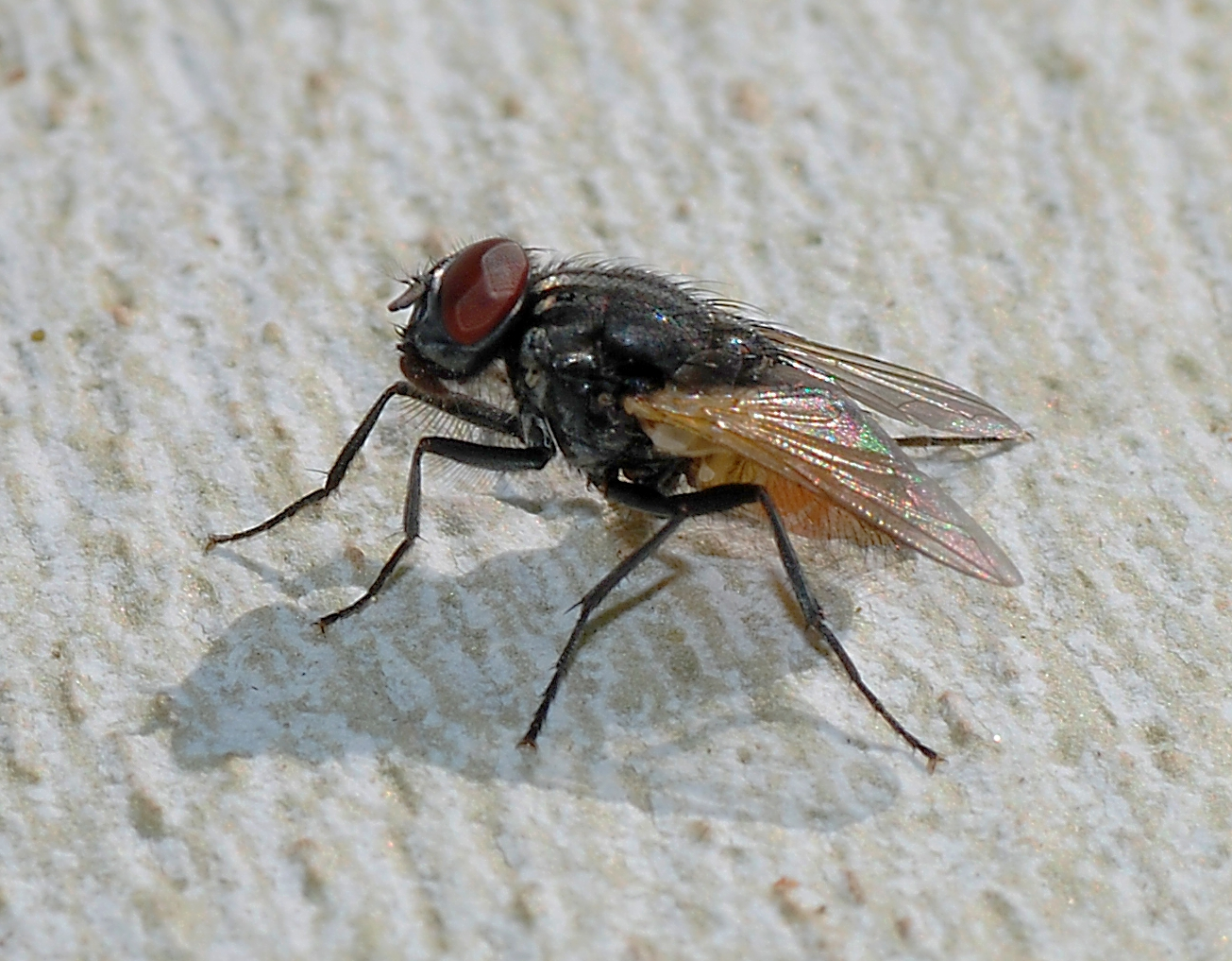 Common house fly (Musca domestica).